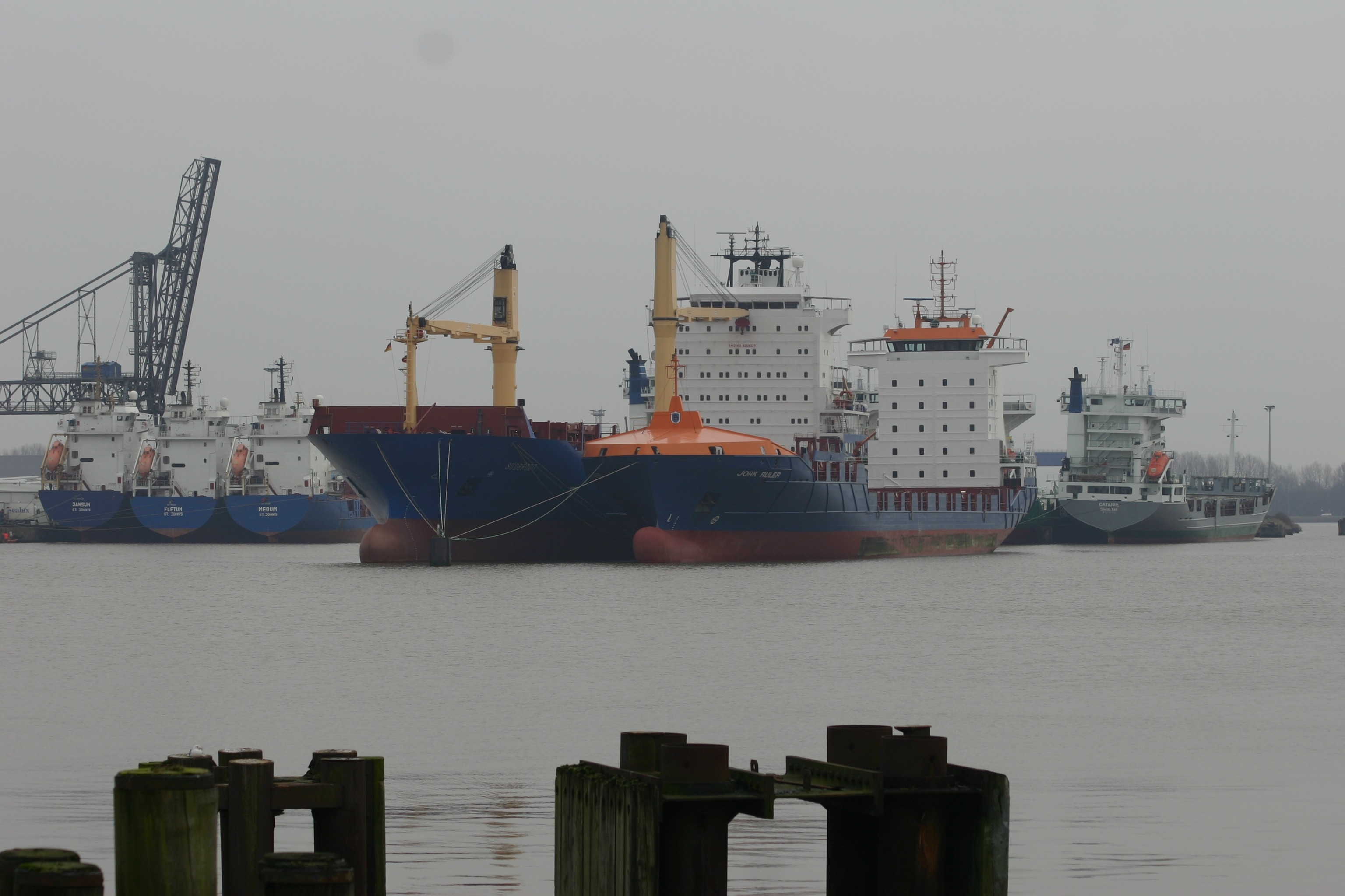 ships (temporarily) out of service (due to recent economic recession) in the port of Emden, Germany JORK RULER IMO Number: 9328027 MMSI Number: 210008000 Callsign: 5BXR2 Length: 141 m Beam: 21 m Flag: Cyprus SUDEROOG IMO Number: 9256327 MMSI Number: 236300000 Callsign: ZDHC8 Length: 161 m Beam: 25 m Flag: Gibraltar CATANIA IMO Number: 9123790 Length: 96 m Beam: 18 m Flag: Gibraltar JANSUM IMO Number: 9155420 MMSI Number: 305216000 Callsign: V2DH6 Length: 100 m Beam: 16 m Flag: Antigua and Barbuda FLETUM IMO Number: 9155432 MMSI Number: 305219000 Callsign: V2DH8 Length: 100 m Beam: 16 m Flag: Antigua and Barbuda MEDUM IMO Number: 9155406 MMSI Number: 305235000 Callsign: V2DJ7 Length: 100 m Beam: 16 m Flag: Antigua and Barbuda